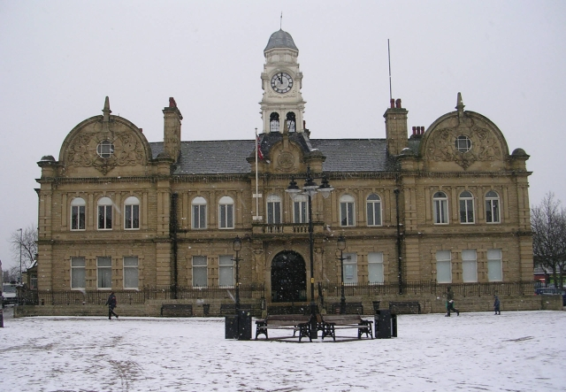 Ossett Town Hall, in the City of Wakefield, West Yorkshire, England.